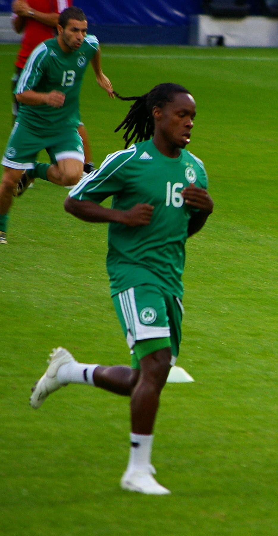 midfielder Omonia Nicosia